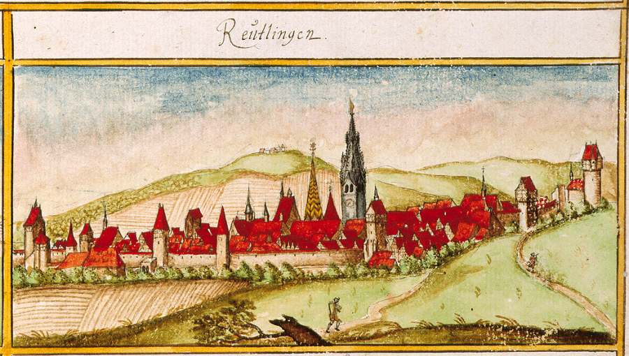 View of Reutlingen from the forest register books created by Andreas Kieser